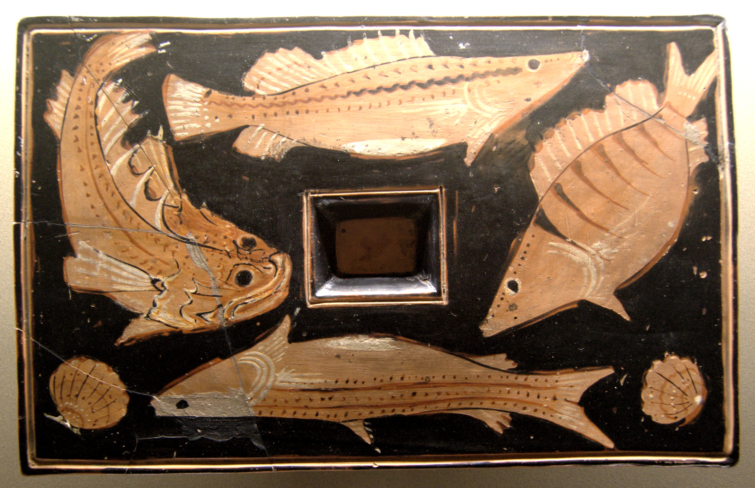 Apulian red-figured fish plate ca. 350–325 BC.